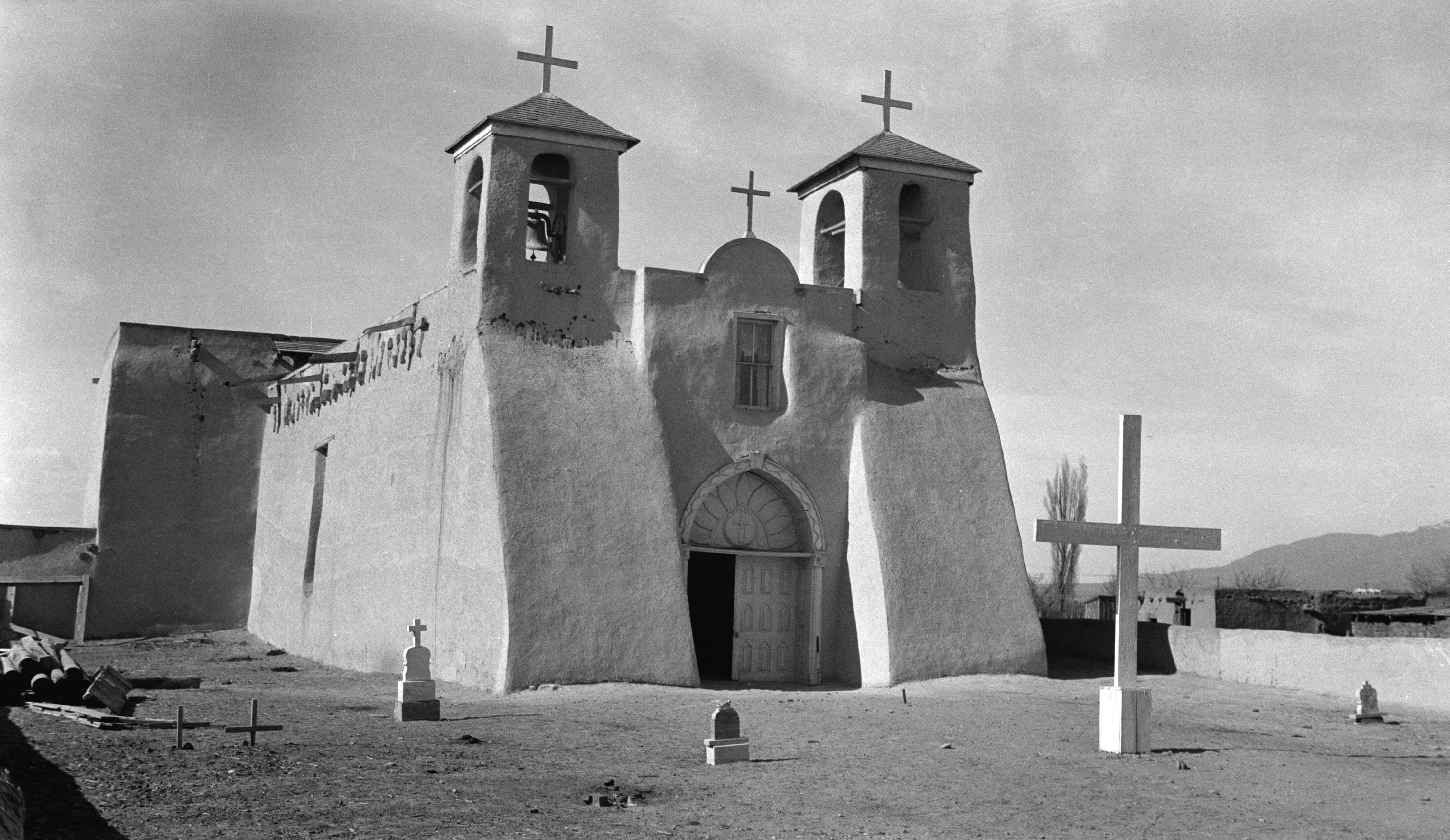 Facade of the Rancho de Taos church (looking northwest). Located in Rancho de Taos, northern New Mexico. 1934 image: HABS—Historic American Buildings Survey of New Mexico.